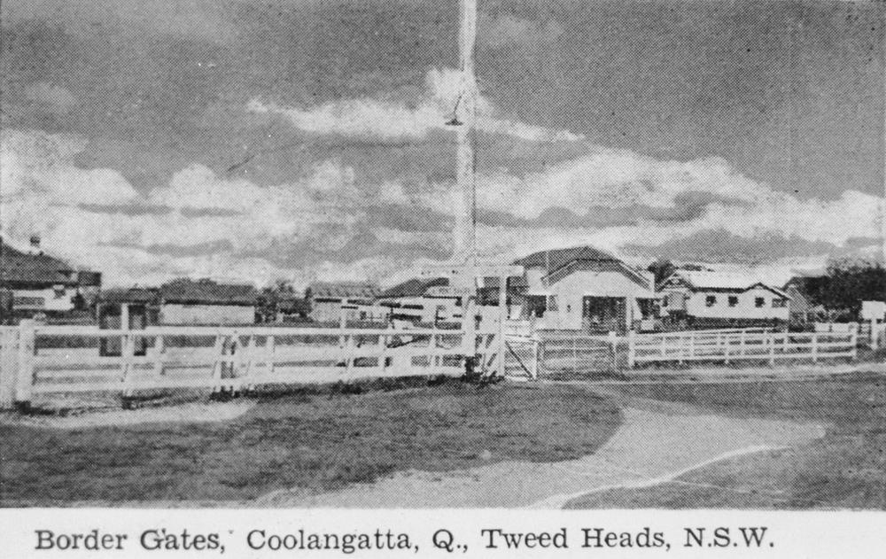 Border Gates between Coolangatta and Tweed Heads, 1943 White gates of the Dividing Fence between Queensland and New South Wales. There are houses behind the fence. Below the photo is the description: Border Gates, Coolangatta, Q., Tweed Heads, N.S.W.